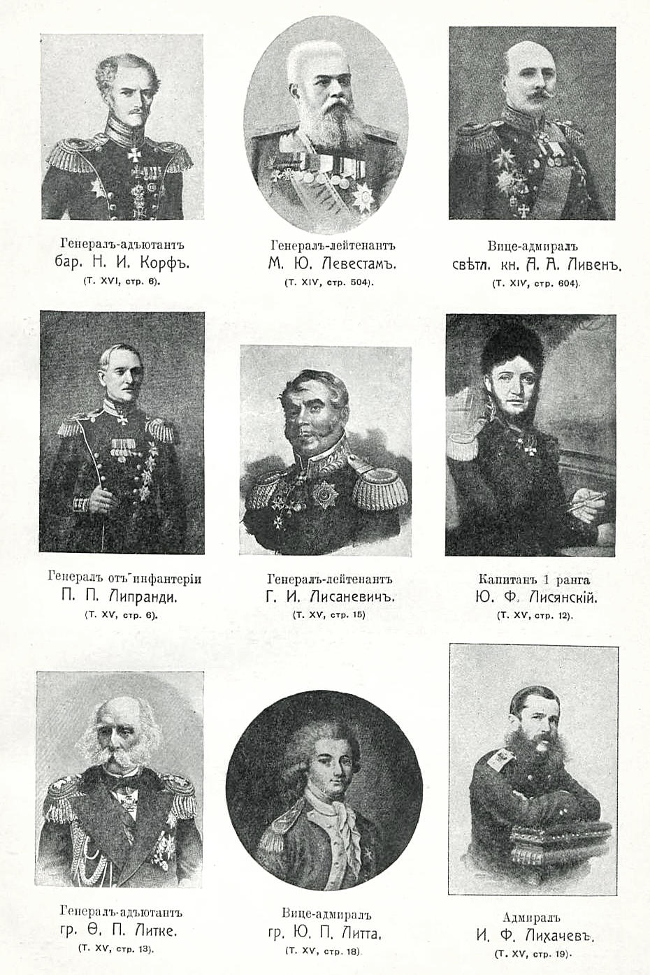 Generals of the Russian Empire